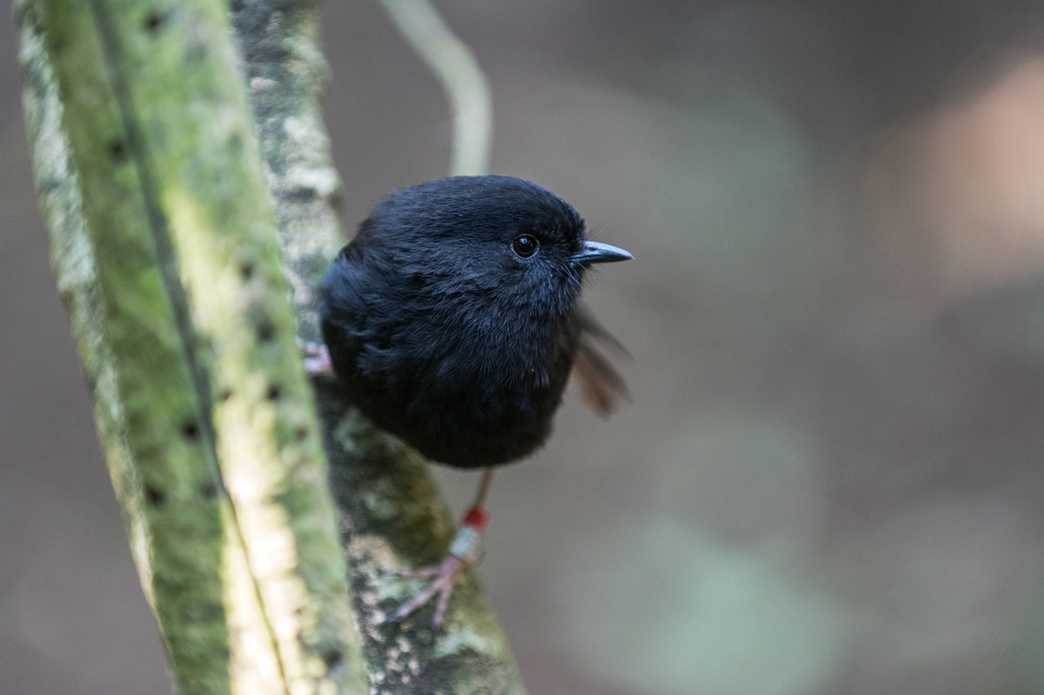 500px provided description: There now number around 300 of these birds, with populations on two offshore islands. The ongoing survival of the species is a conservation success story, with the population consisting of one female and four males in 1980. [#new zealand ,#conservation ,#black robin ,#chatham island ,#rangatira ,#south-east island]